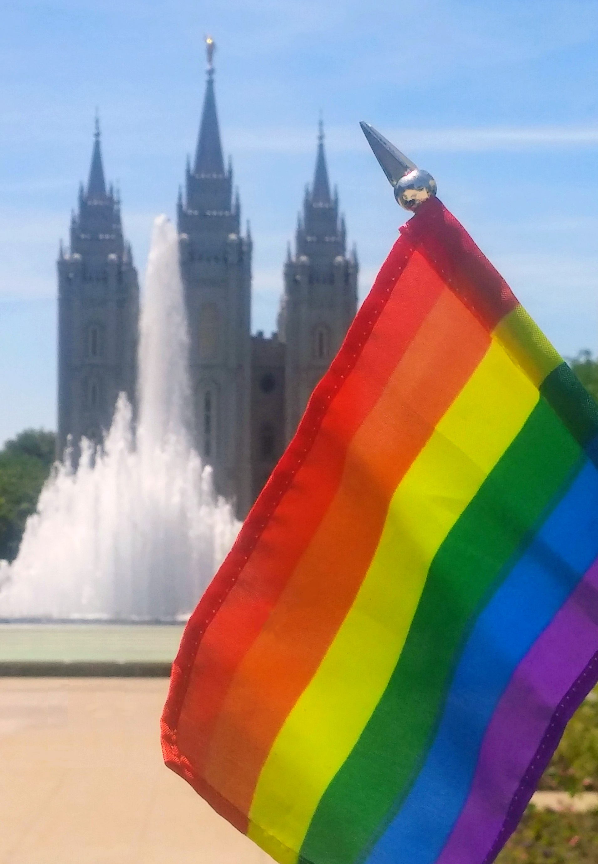 An LGBT pride flag in front of the Salt Lake City Mormon temple